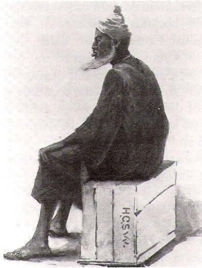 Bai Bureh, leader of the Temnepeople during the Temne-Mande-War 1898